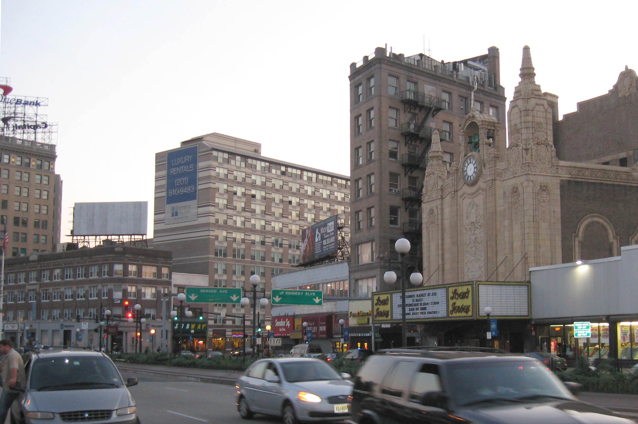 Looking south in Journal Square at sunset of a sunny day